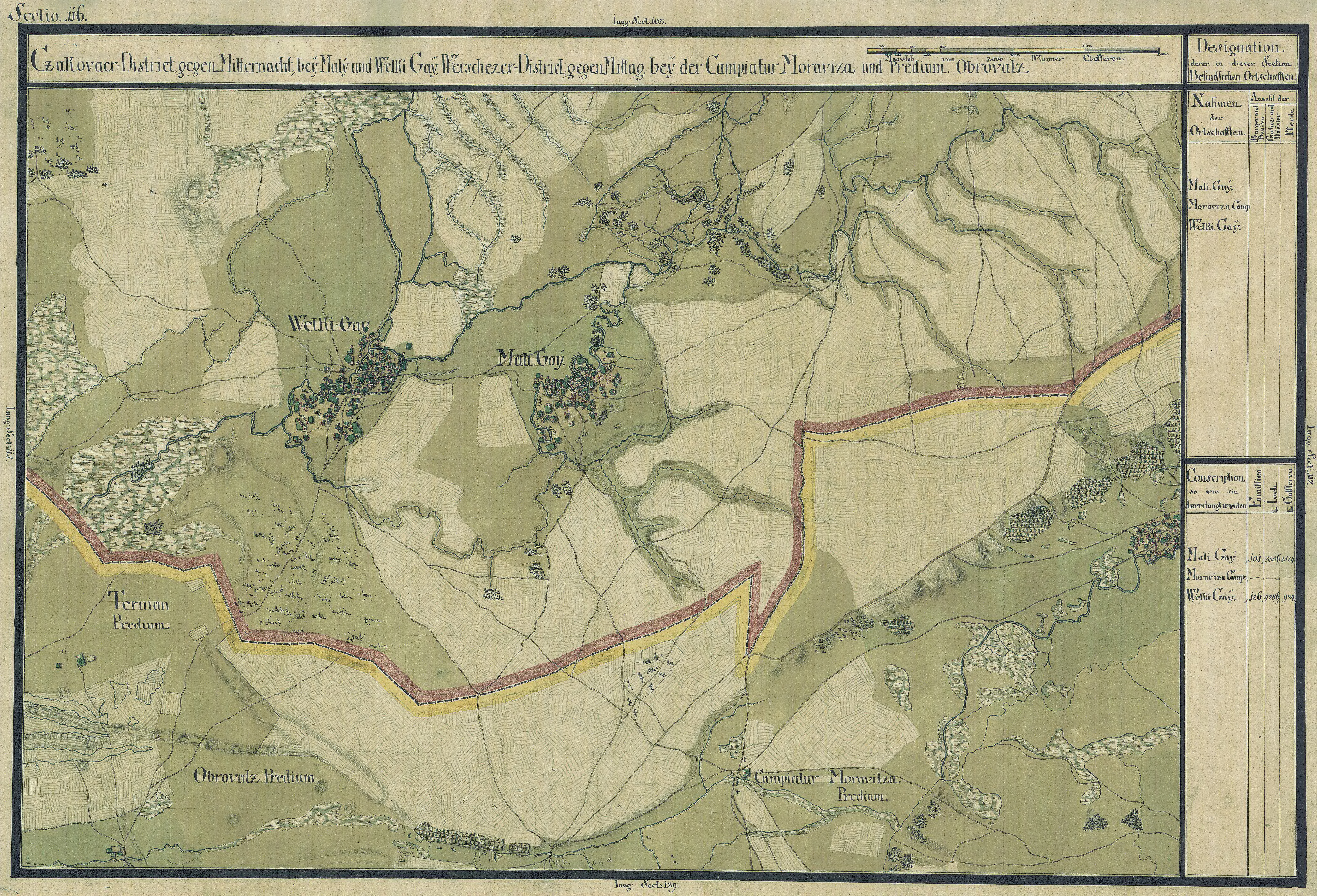 The Banat region in the cadastral maps: Josephinische Landesaufnahme, 1769-72. Josephinische Landaufnahme pg116